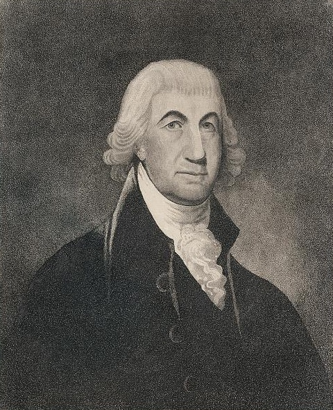 Engraved portrait of Massachusetts Senator and Governor Caleb Strong